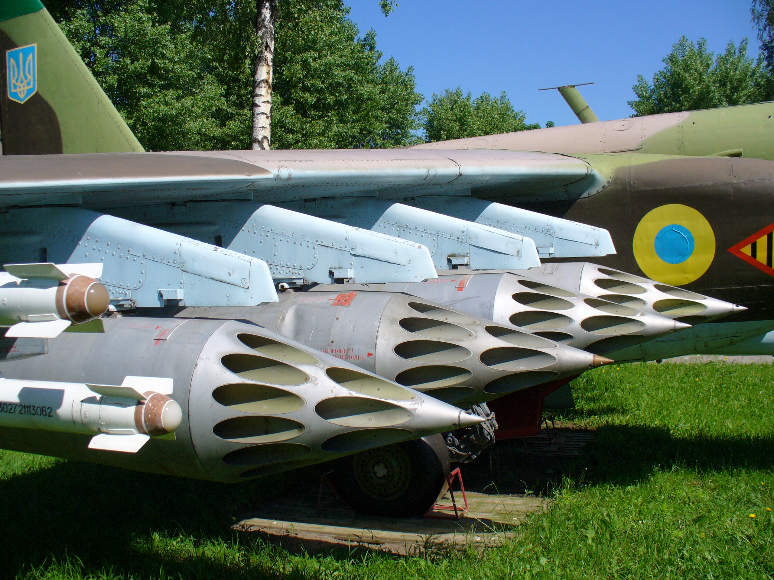 The Sukhoi Su-25 is a Soviet Union jet aircraft. NATO reporting name "Frogfoot". Ukrainian Air Force Museum in Vinnitsa.